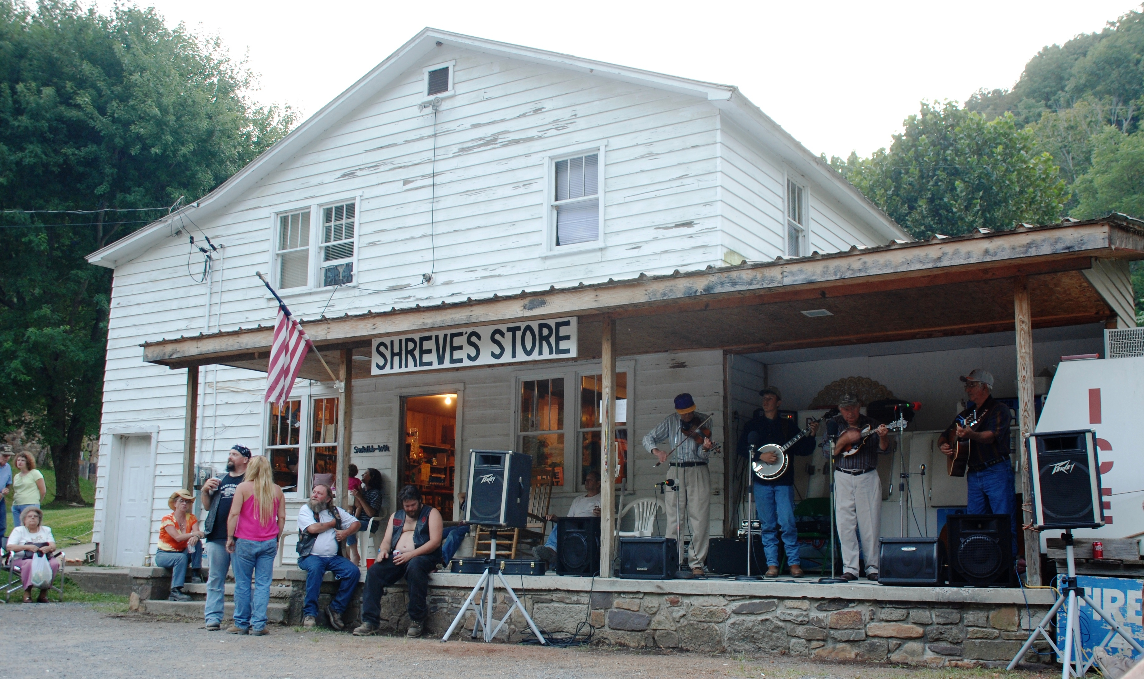 Live Bluegrass music and dancing at Shreves Store in Smoke Hole Canyon.